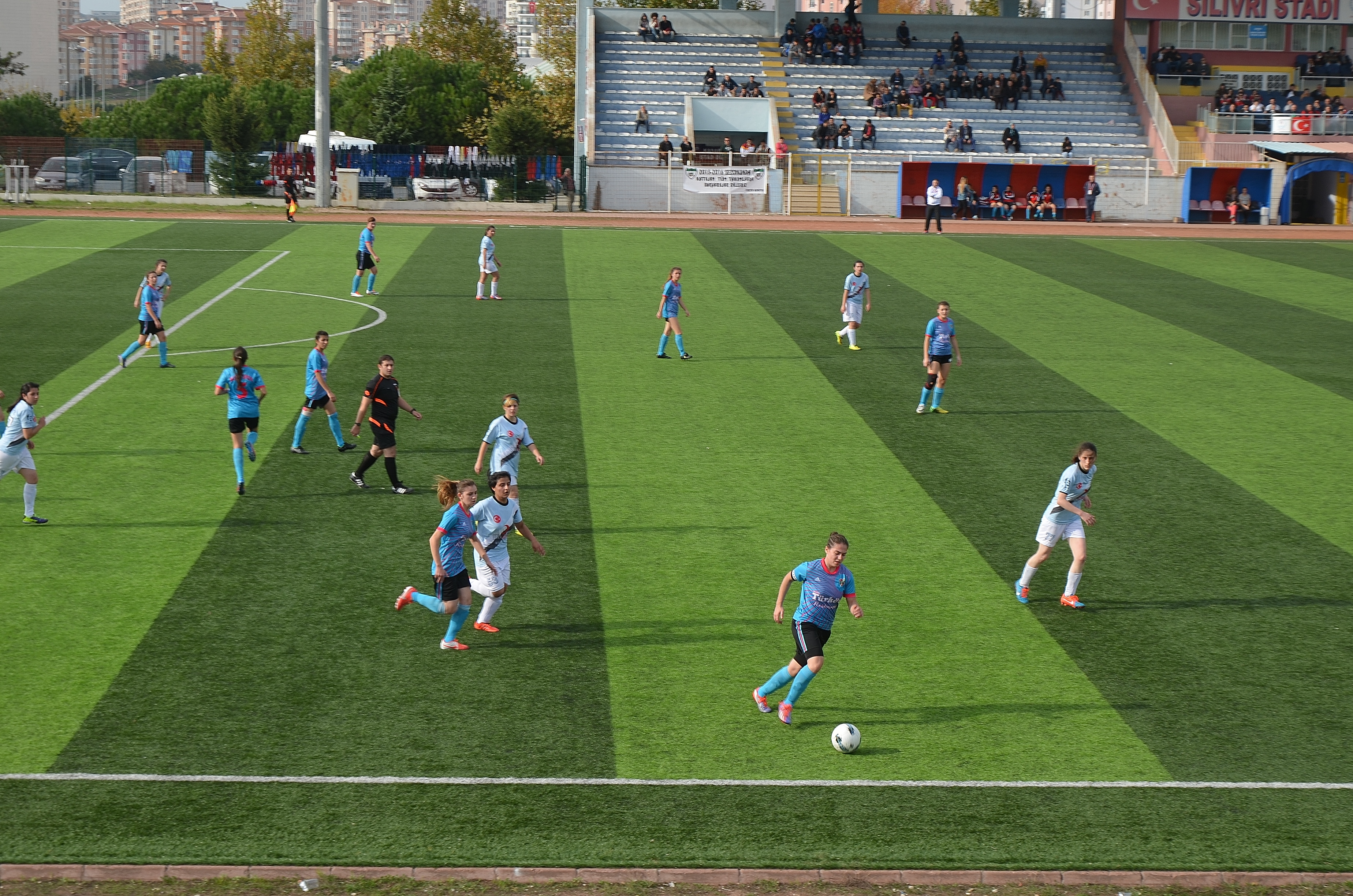 Silivri Alibey Spor vs 1453 Maltepe Gençlik Spor 2015-16 season match of the Turkish Women's Third League